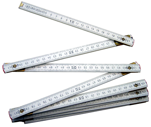 Folding meterstick with numbers in centimeters and one line per millimeter. Fully extended it measures 2 meters. Photographer Isabelle Grosjean ZA Date 2001-10-05 License GFDL-self Camera Sony PSC-P92